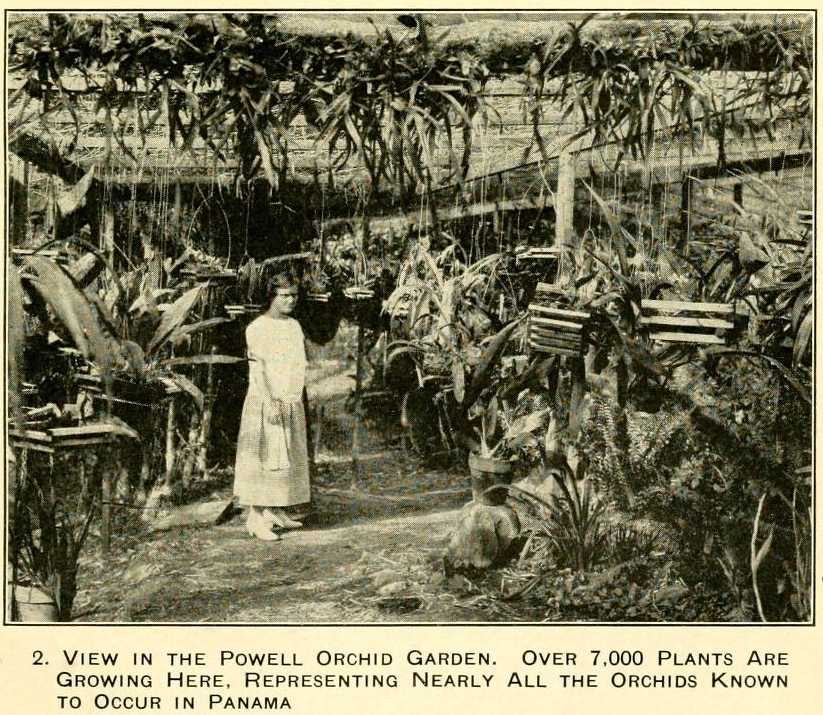 7,000 plants in Charles Wesley Powell's Panama garden shown for scale